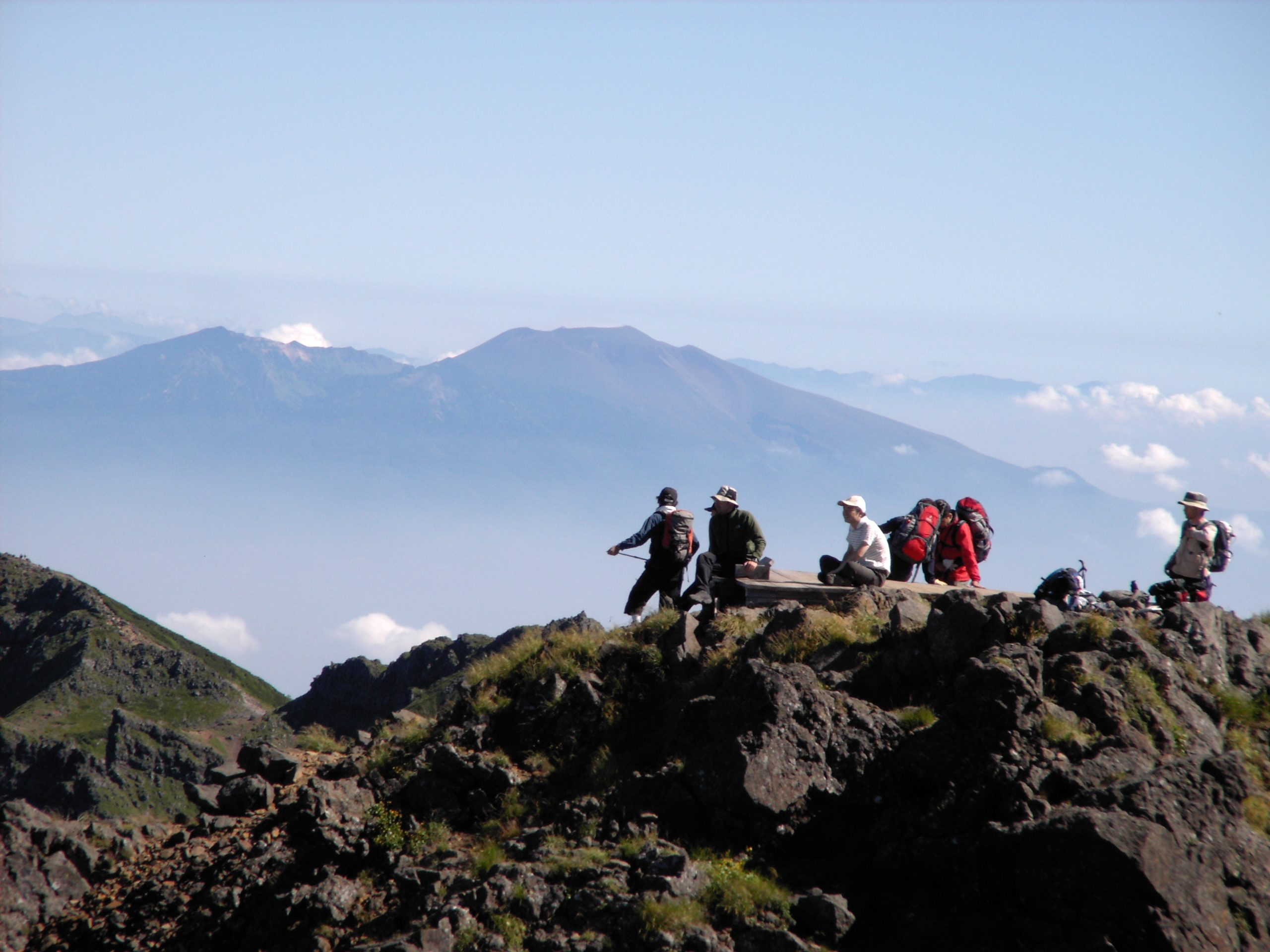 Mount Asama from Mount Aka, Yatsugatake Mountains, Honshu, Japan.